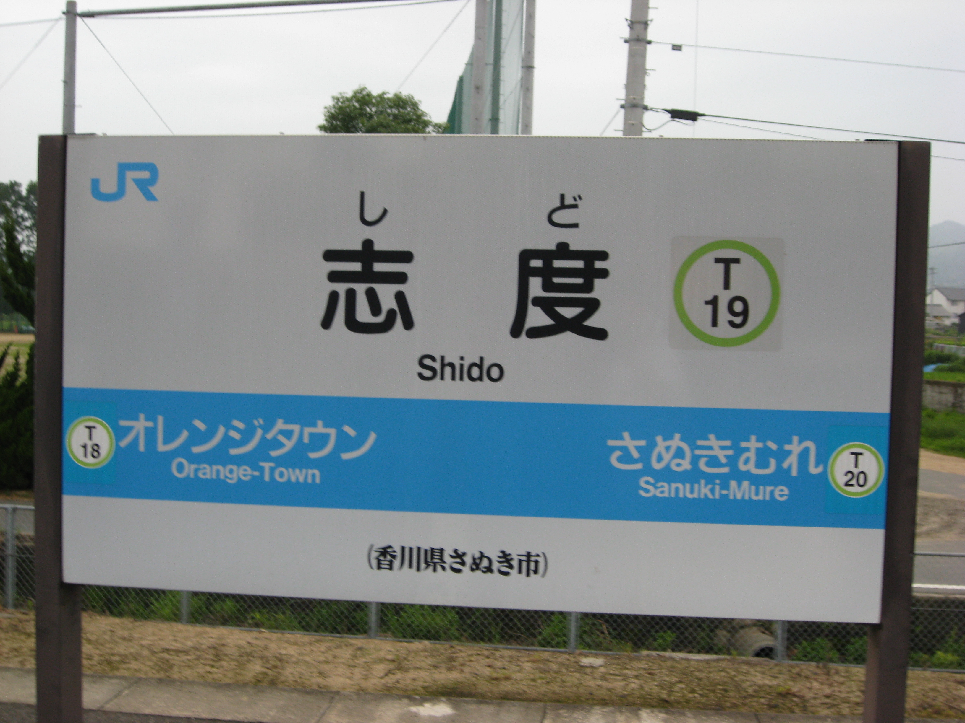 Shido Station